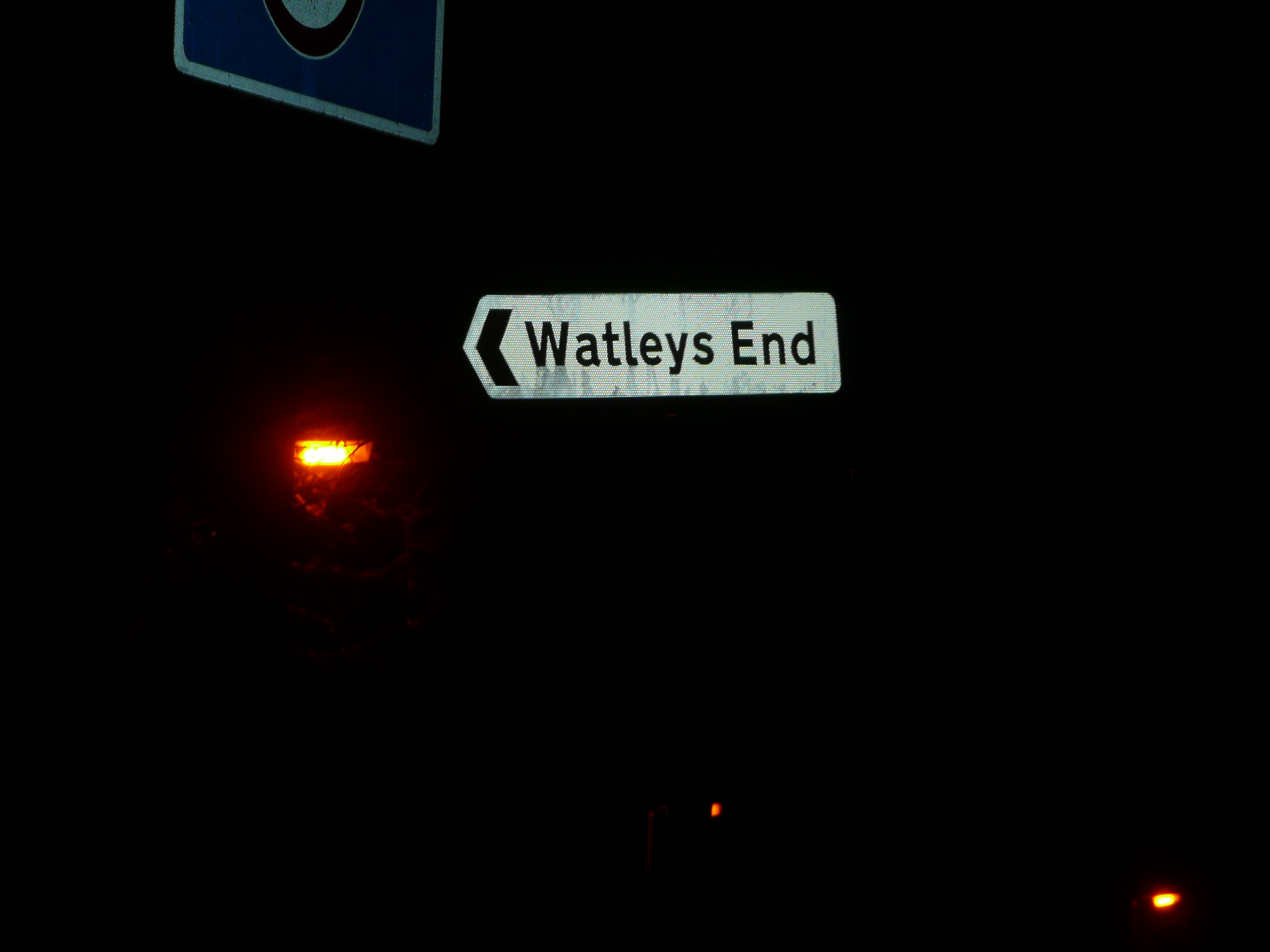 Fingerpost sign for Watley's End and Kendleshire, at the junction of Harcombe Hill and Down Road, Winterbourne Down